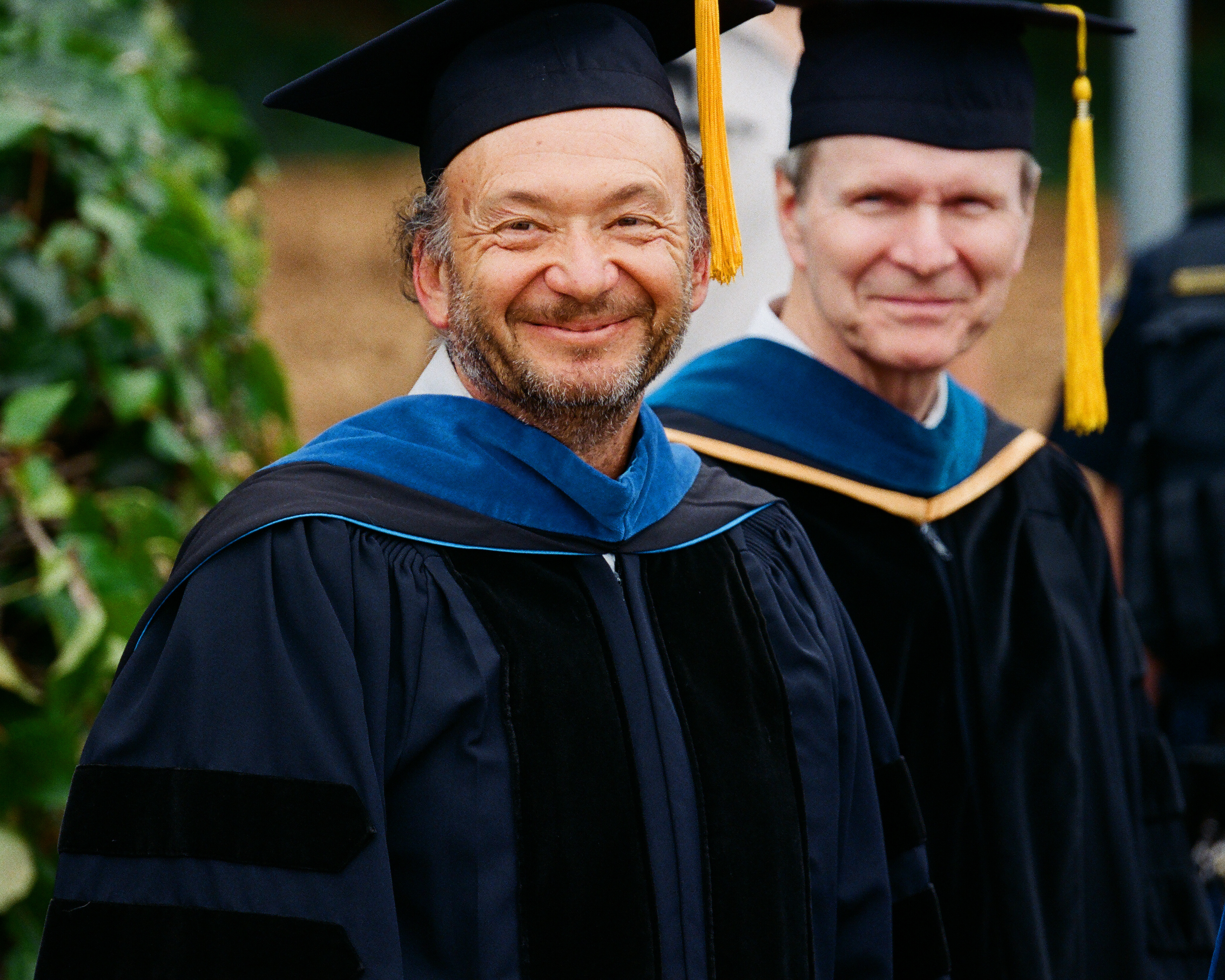 Photographer Glenn Beltz's description: "Graduate Division Commencement: Professor Amr El-Abbadi"